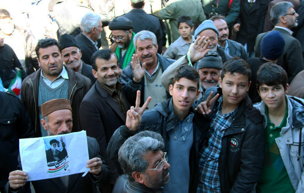 22 Bahman of 2014 in Nishapur